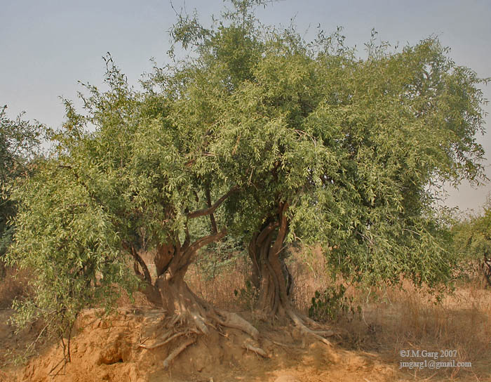 Khabbar Salvadora oleoides at Hodal in Faridabad District of Haryana, India.